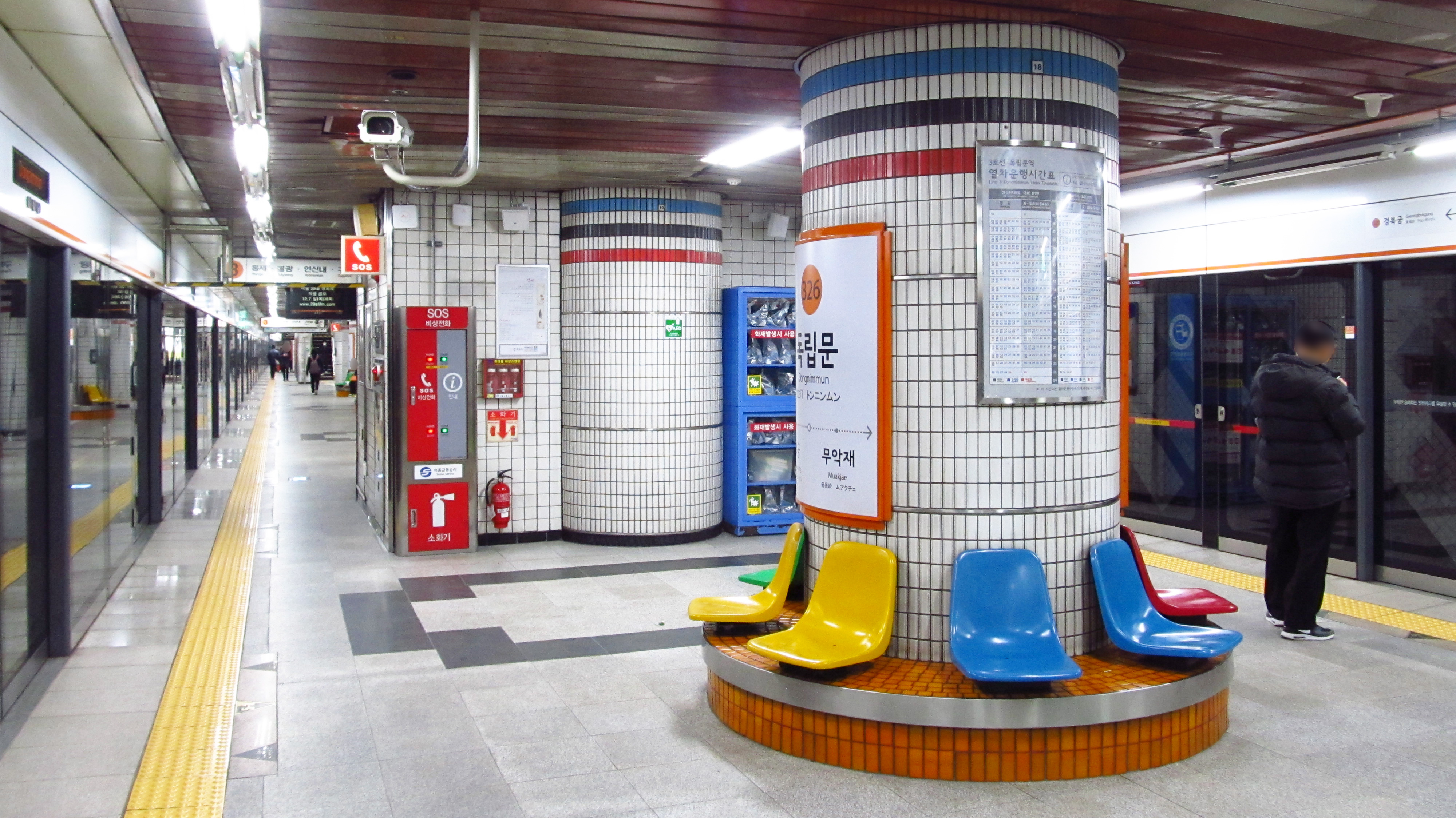 The platform at Dongnimmun Station on Seoul Subway Line 3 in Seodaemun-gu, Seoul, Republic of Korea(South Korea)